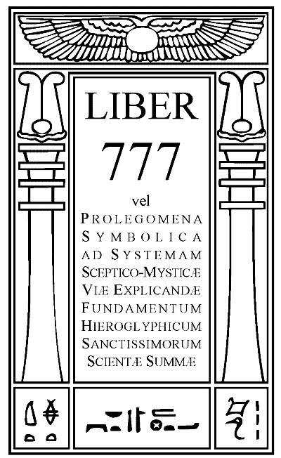 Aleister Crowley title page (777 and Other Qabalistic Writings of Aleister Crowley Transcription: LIBER 777 vel Prolegomena Symbolica ad Systemam Sceptico-Mysticæ Viæ Explicandæ Fundamentum Hieroglyphicum Sanctissimorum Scientæ Summæ 𓄼𓏏 𓍱𓏏 𓇯𓎟𓏏𓌉𓊹𓐝𓊖𓏏𓄑 𓋋𓅿𓏪